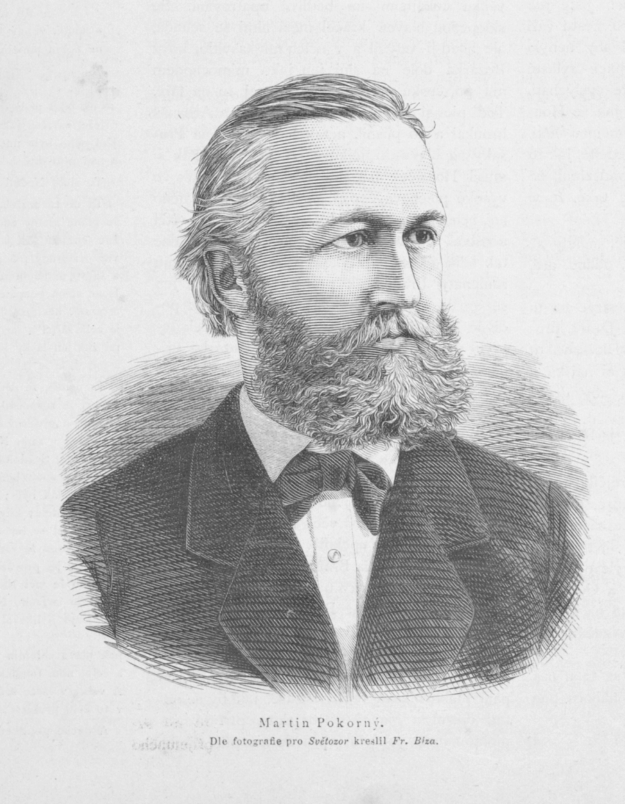 Portrait of Martin Pokorný (1836-1900), Czech mathematician, high-school teacher and politician